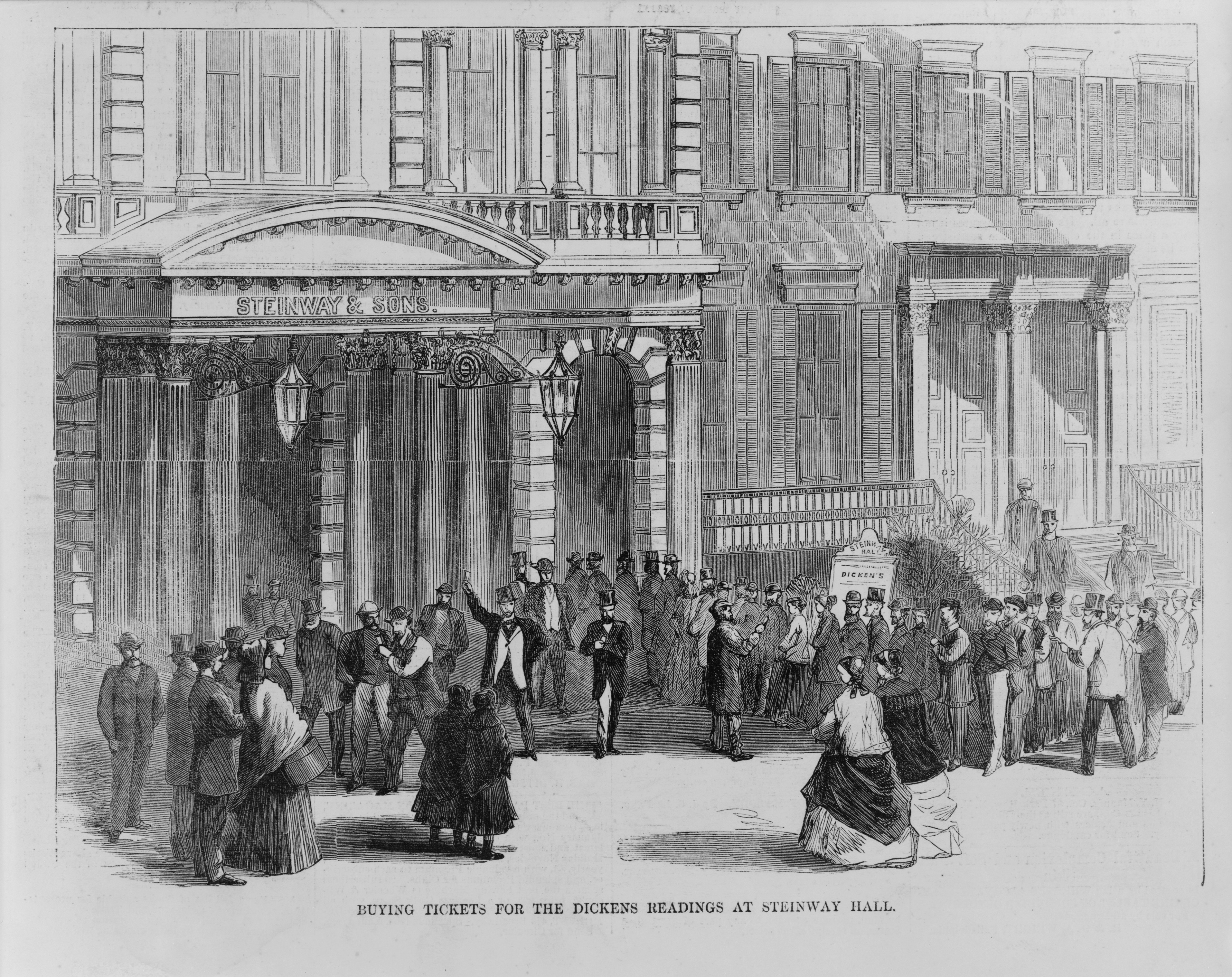 Crowd of spectators buying tickets for a Charles Dickens reading at Steinway Hall, 71 East 14th Street, New York City.[1] Illustration from Harper's weekly, v. 11, no. 574, 28 December 1867, p. 829.